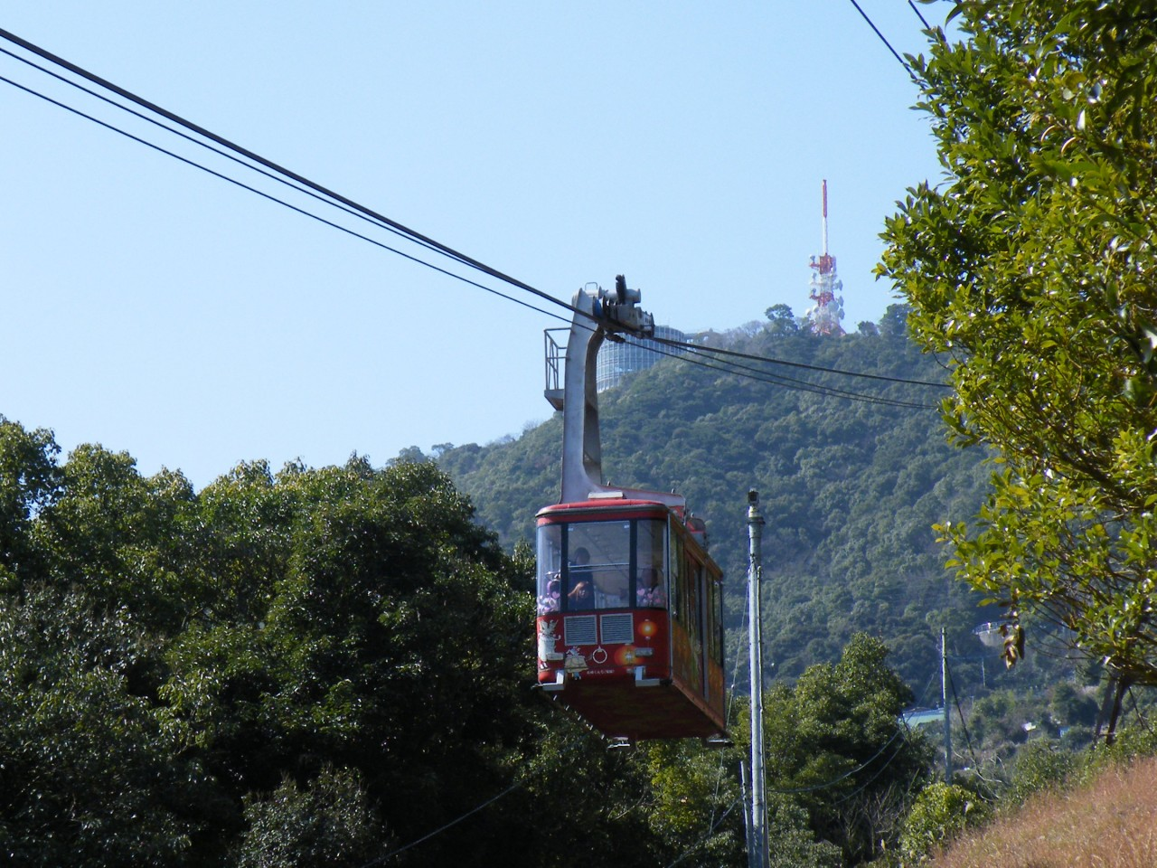 Nagasaki Ropeway with Mount Inasa in background.